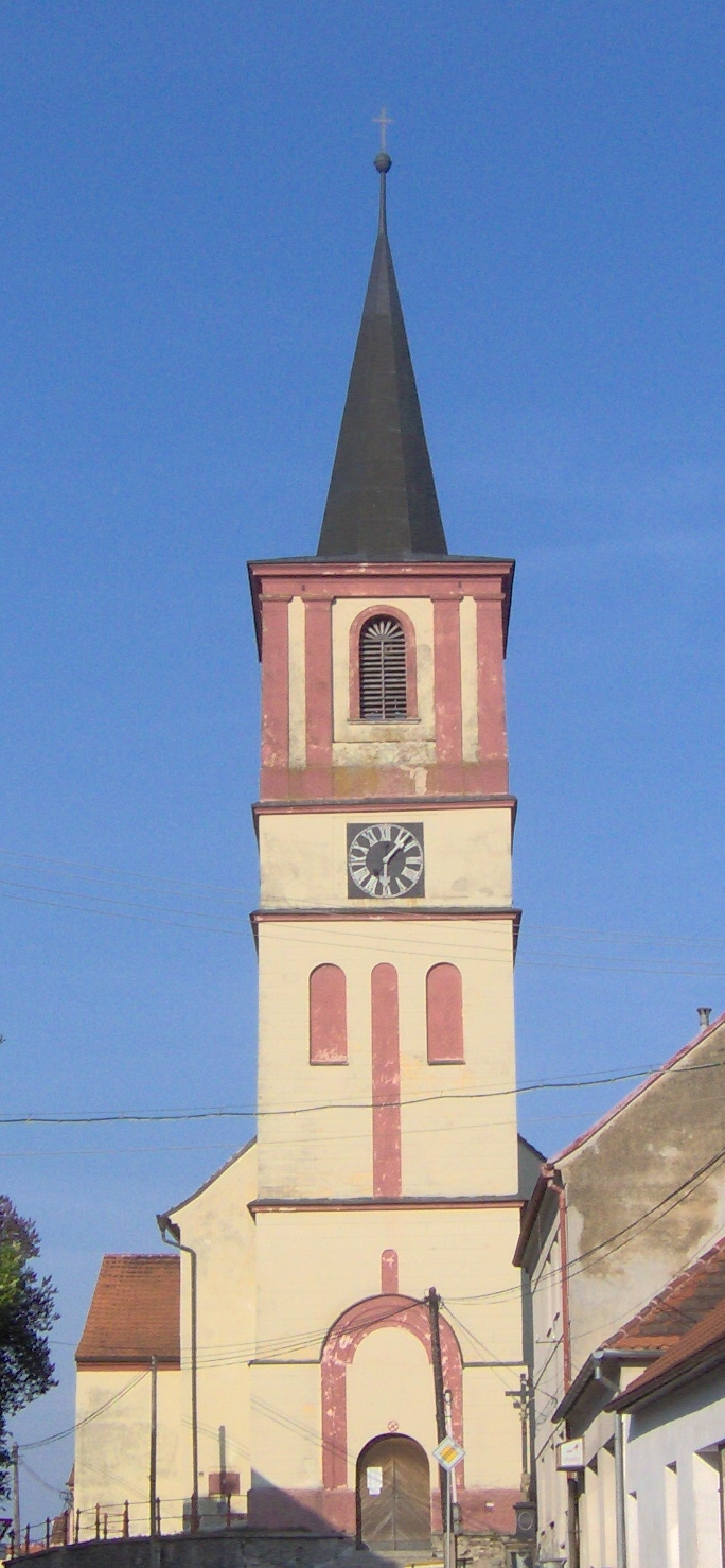 Church of saint Peter and Paul in Volenice, Strakonice District, Czech republic